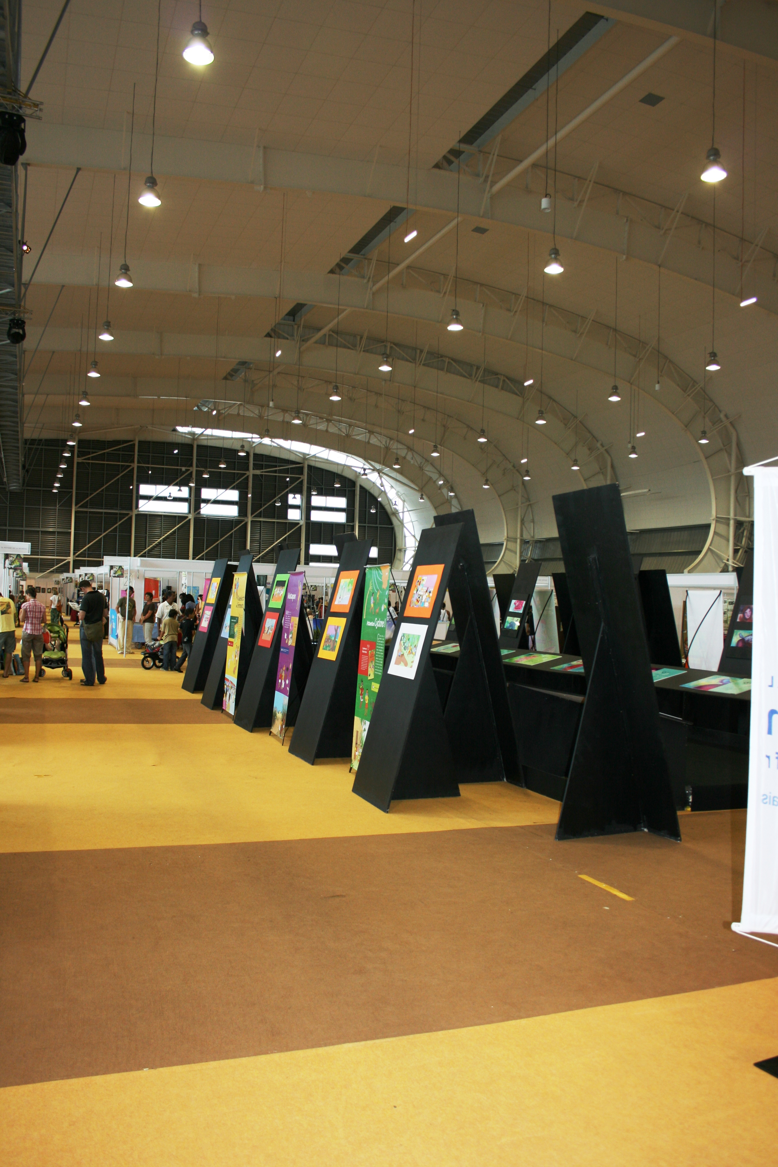 6th Festival du livre et de la bande dessinée, Saint-Denis, Réunion.